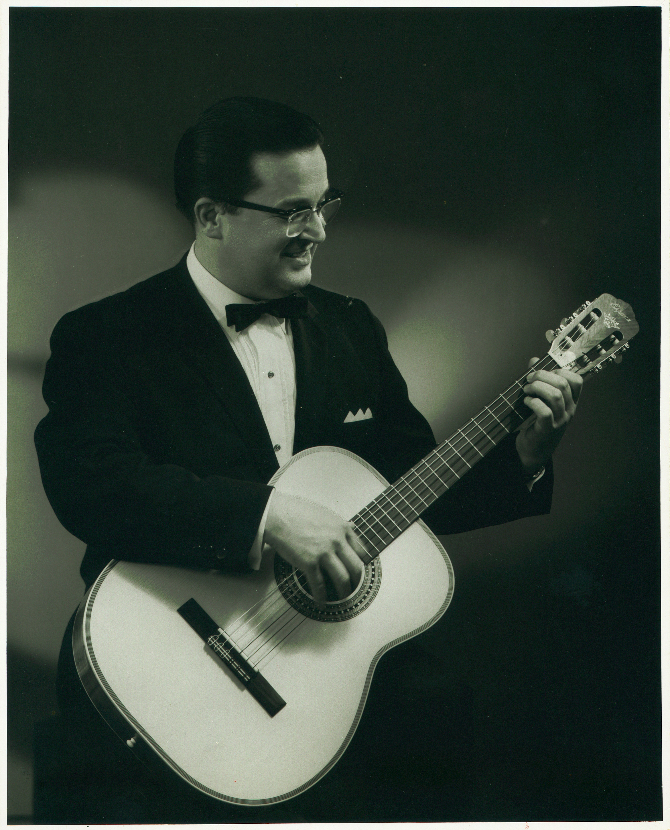 Tony Bradan in 1968, playing classical guitar